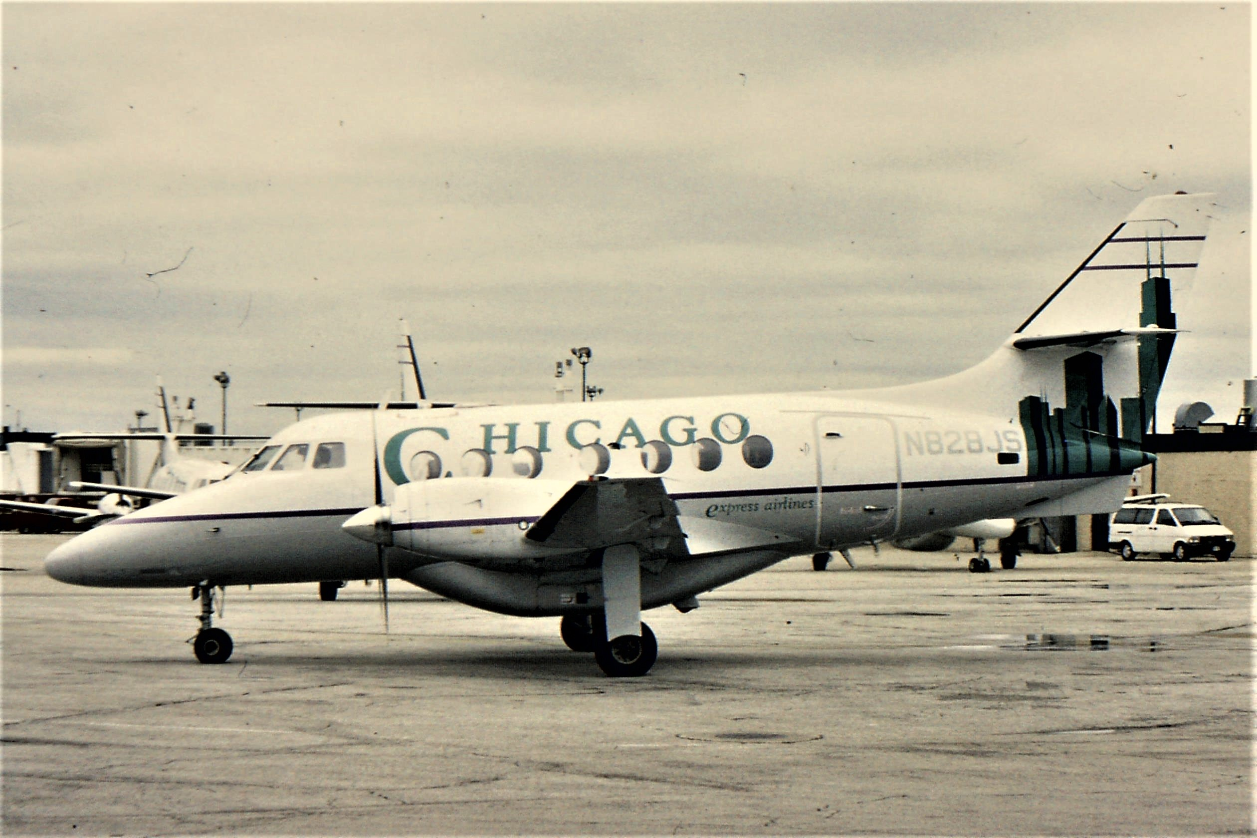 I think this airline acted as a feeder for ATA.